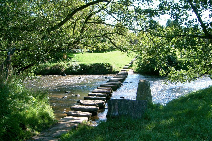 Steppingstones at Lealholm, North Yorkshire